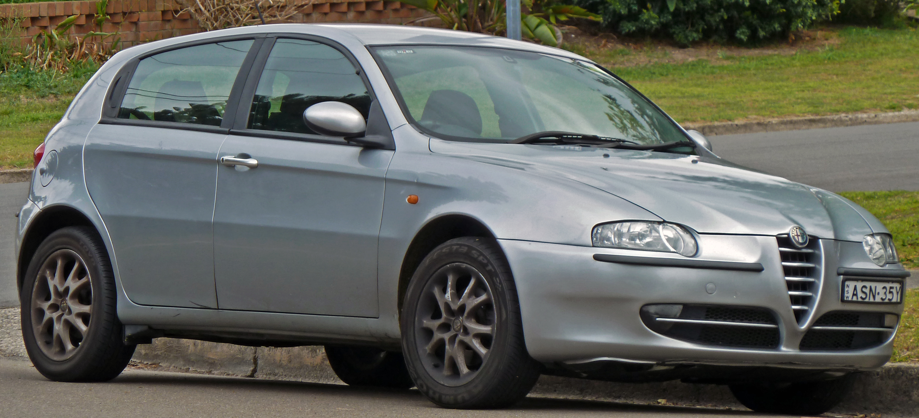 2004 Alfa Romeo 147 Selespeed Twin Spark 5-door hatchback. Photographed in Sandringham, New South Wales, Australia.